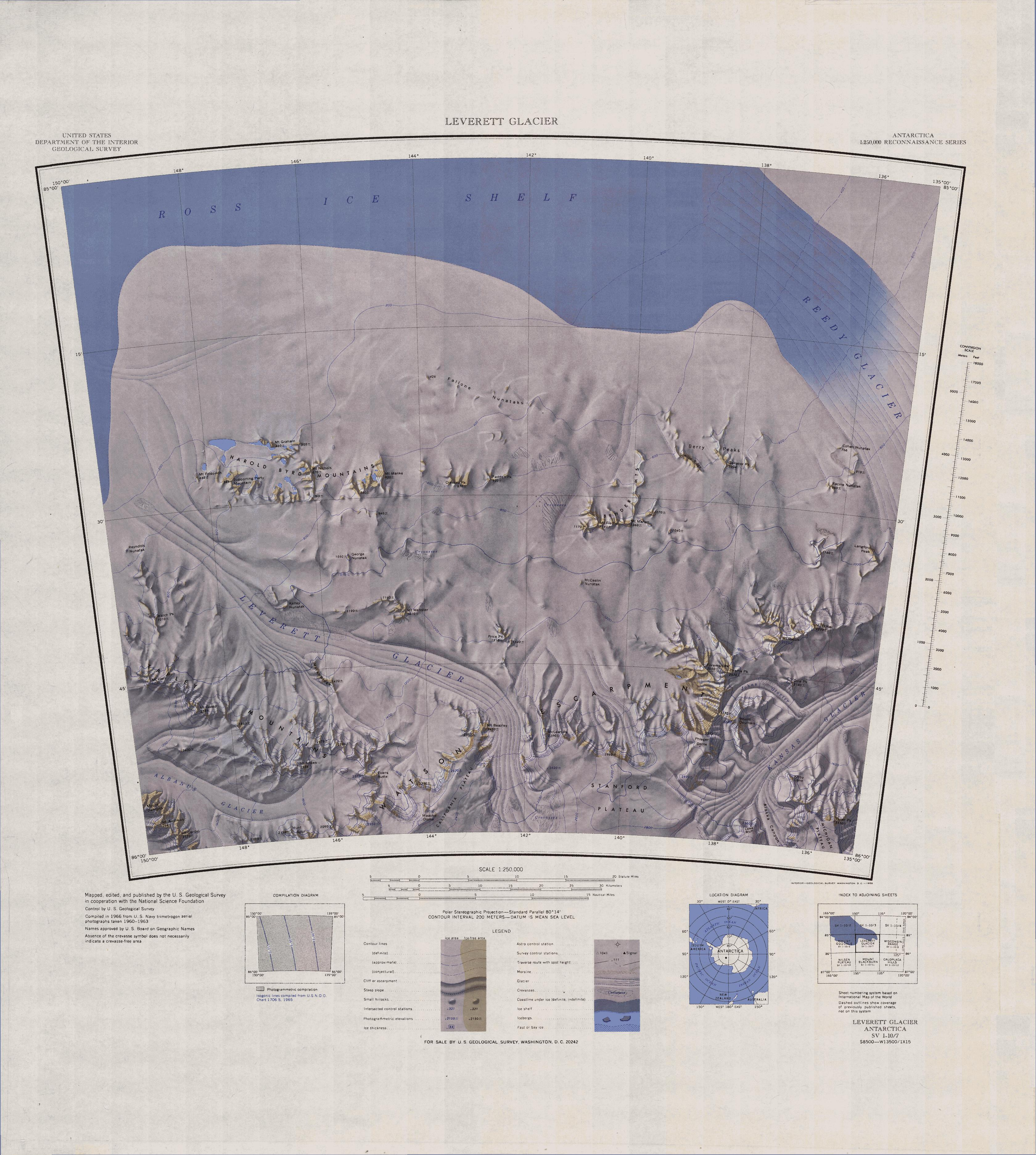 Map of Antarctica by the United States Antarctic Resource Center of the US Geological Society.